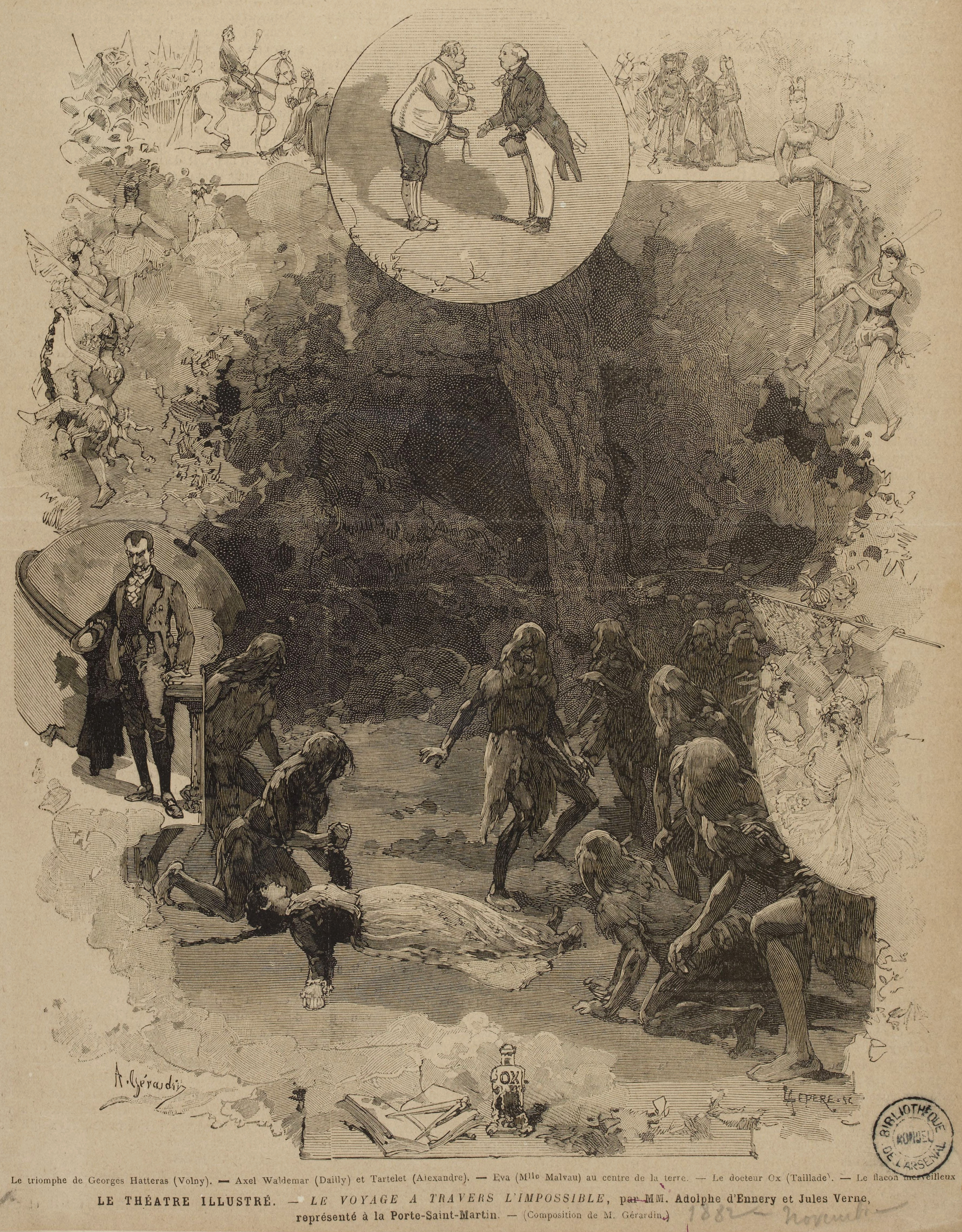 Drawing by A. Gérardin for Le Monde Illustré (No. 1340, 2 December 1882, page 1), showing scenes from the play Voyage à travers l'impossible. More information about this engraving here.